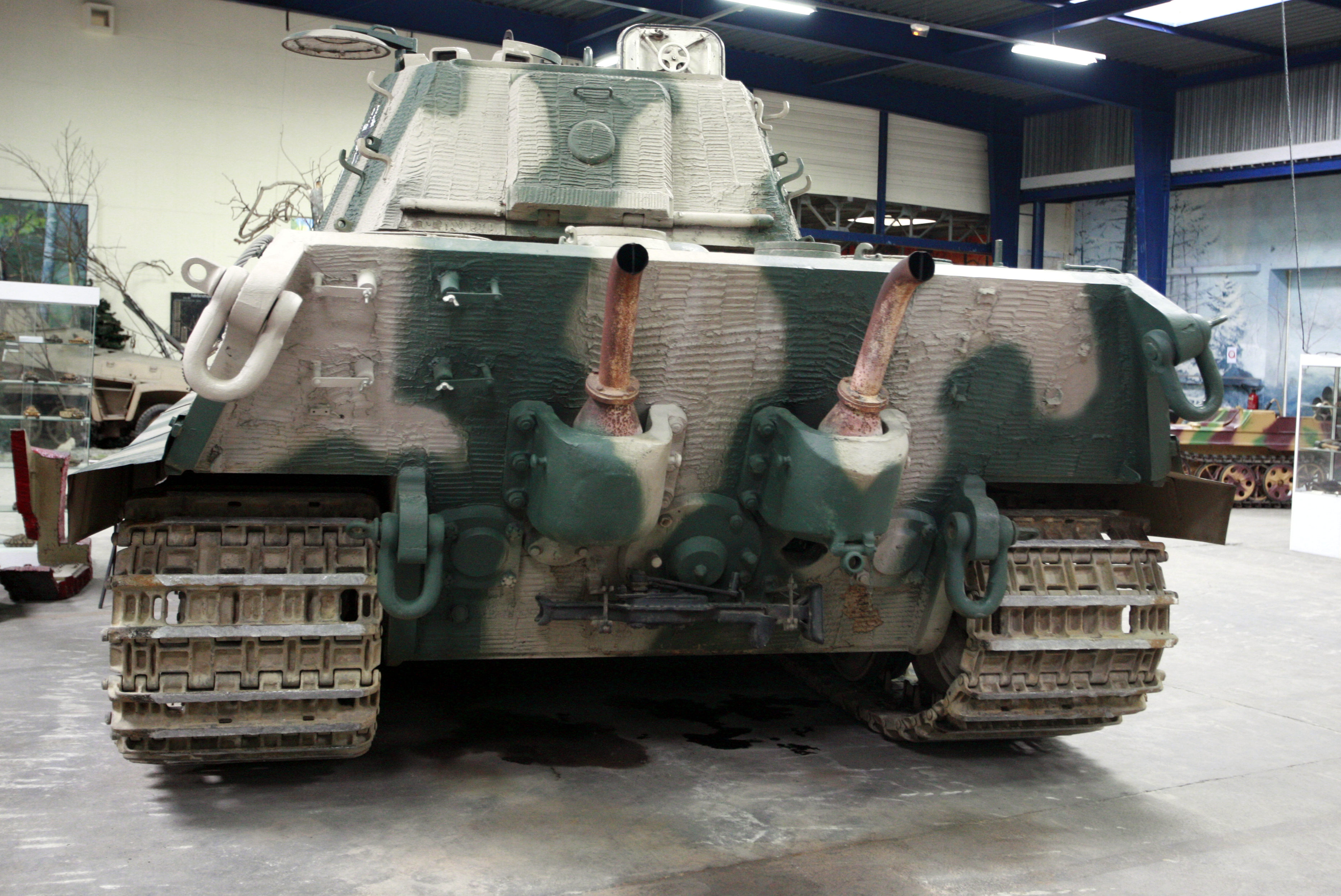 Tiger II. On display at Saumur Général Estienne museum.